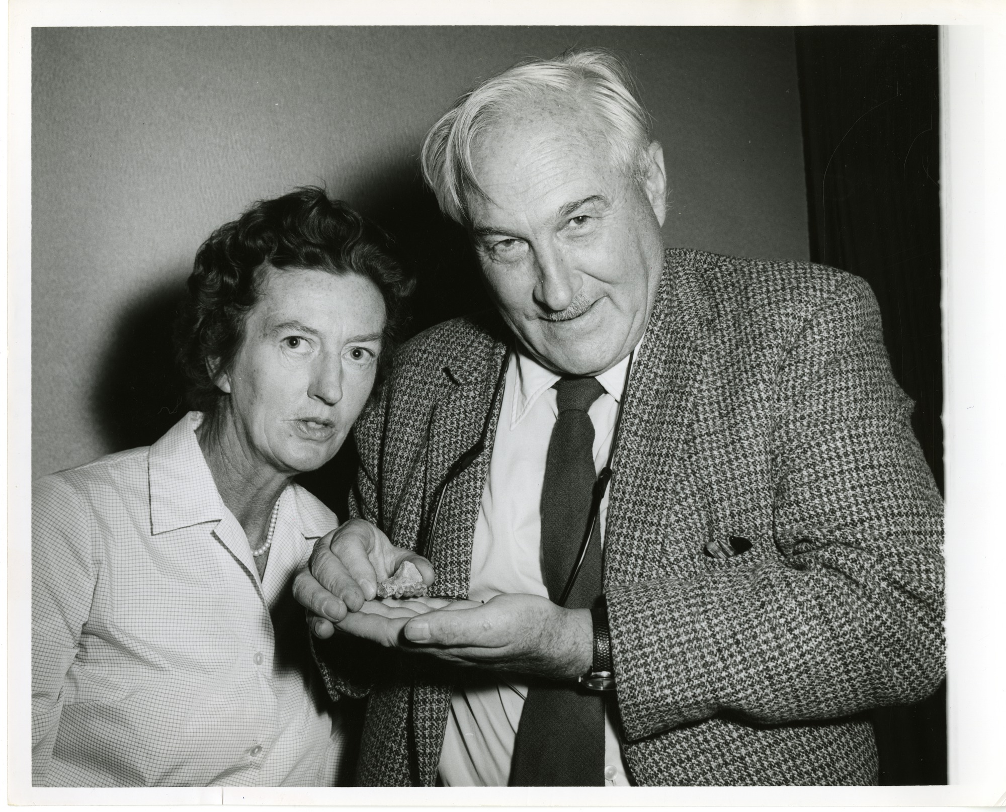 British archeologist and anthropologist Mary Douglas Nicol Leakey (1913-1996) and her husband Louis Seymour Bazett Leakey (1903-1972), 1962. Cite as: Acc. 90-105 - Science Service, Records, 1920s-1970s, Smithsonian Institution Archives Persistent URL:Link to data base record